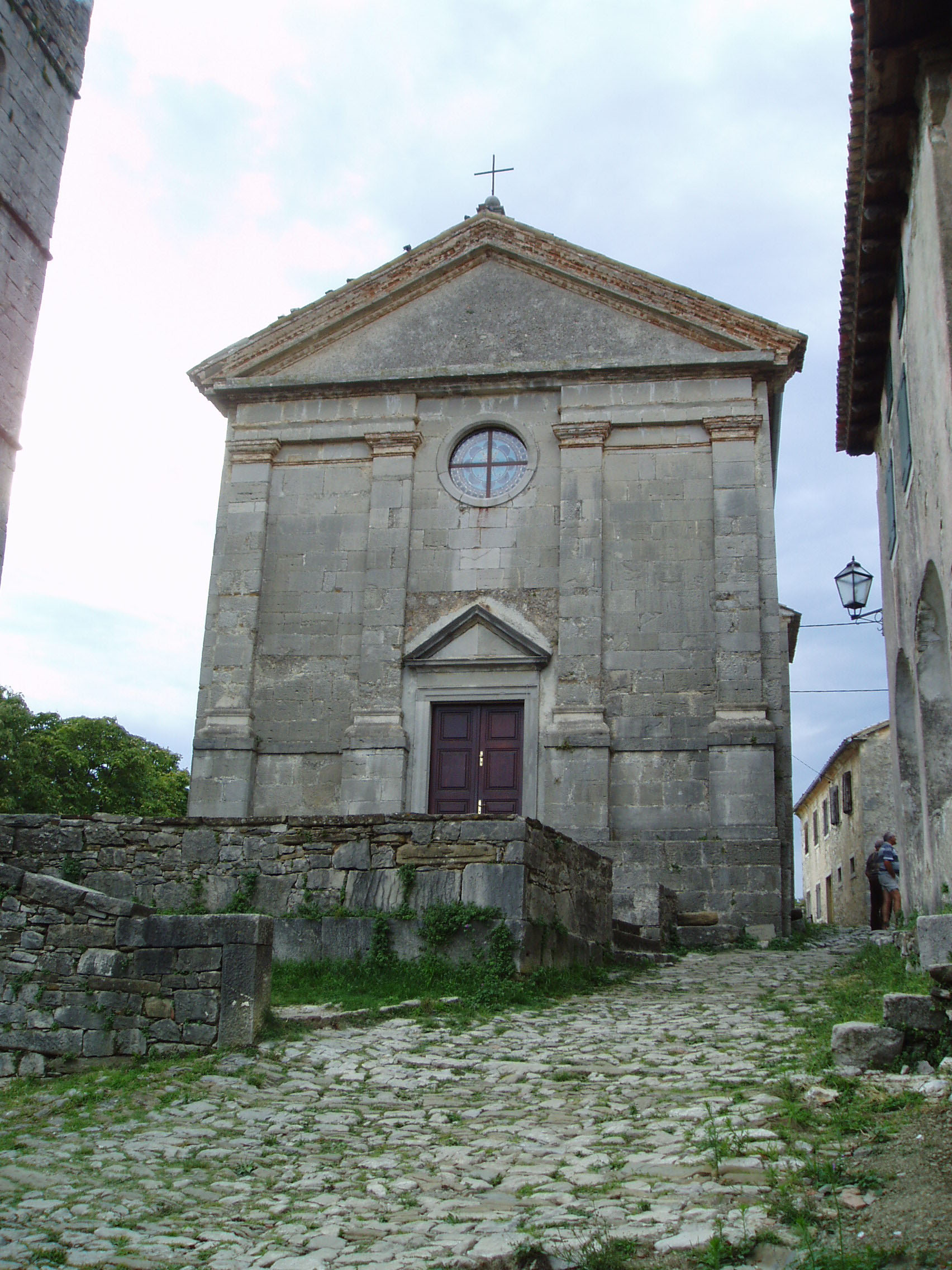 A church in Hum